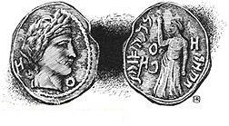 Bronze Coin of Aretas IV, Nabataean coins